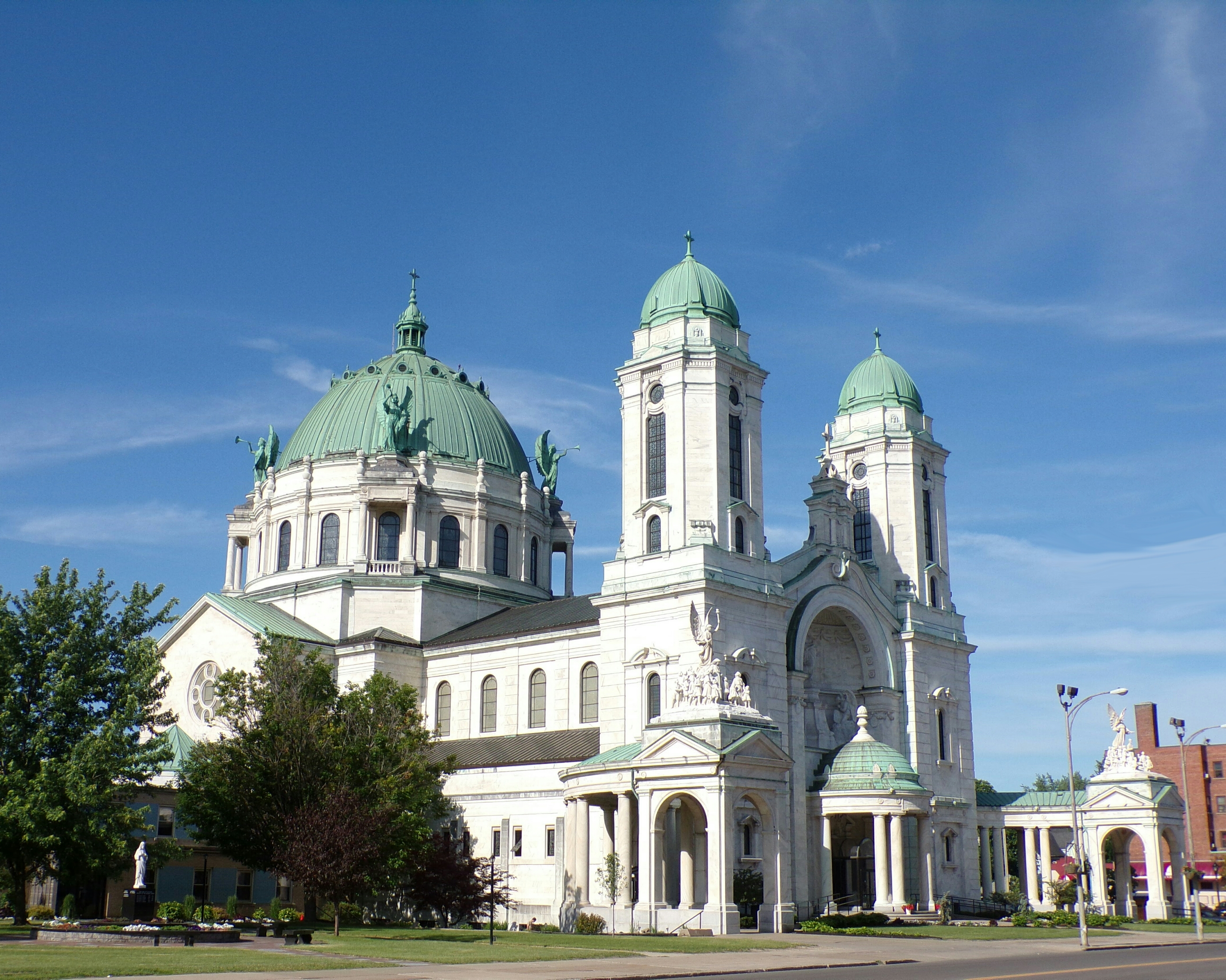 The Our Lady of Victory Basilica is a Catholic Church and National Shrine as well as a Minor Basilica in Lackawanna, New York built by Father Nelson Baker in honor of Our Lady of Victory, the shrine is a popular pilgrimage and visitor destination in Lackawanna. It is part of the Diocese of Buffalo, New York